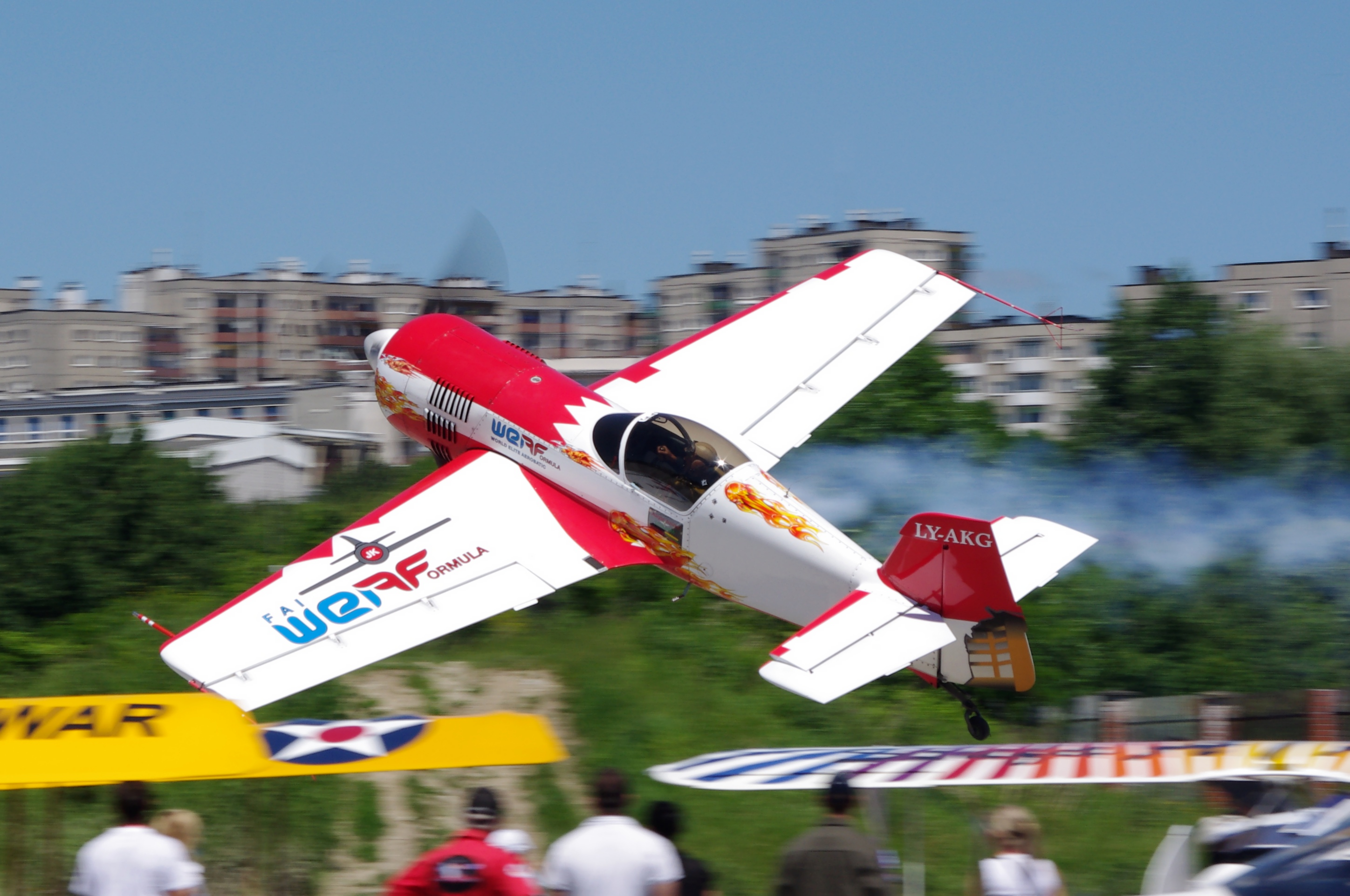 Jurgis Kairys performing on Su-26 at Aircraft Picnic in Kraków